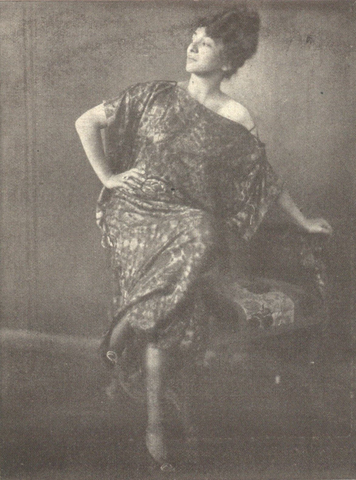 Leontine Sagan